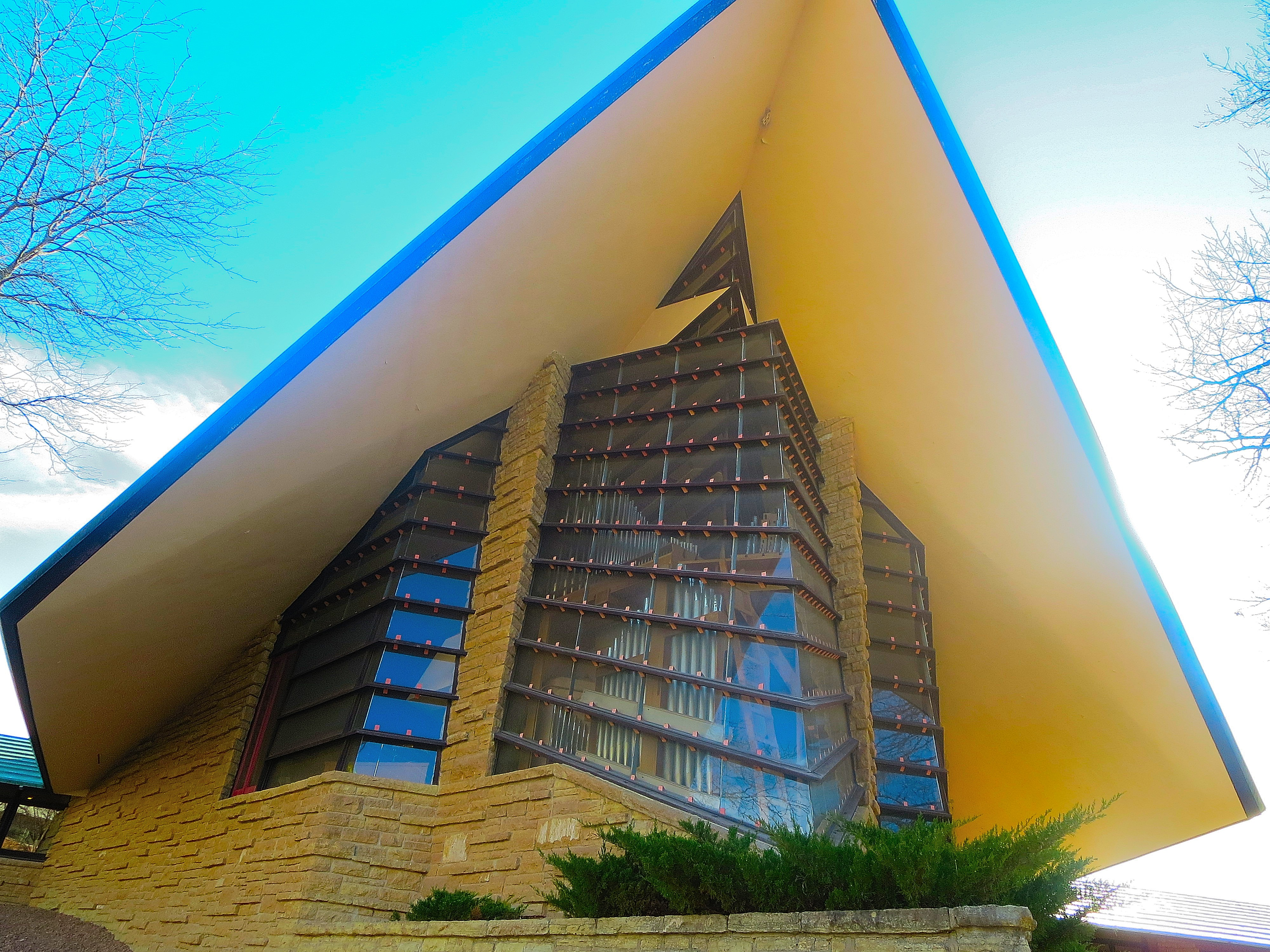 First Unitarian Society Meeting Landmark Building